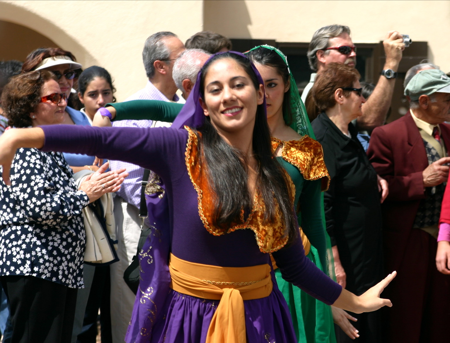 Dancing at the unveiling of a monument to Cyrus the Great at Balboa Park, San Diego, California, USA